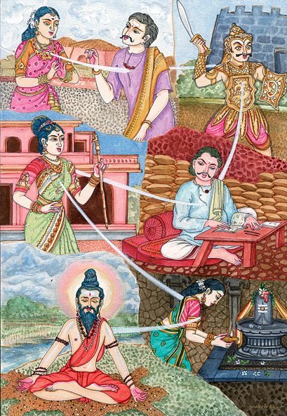 Reincarnation AS